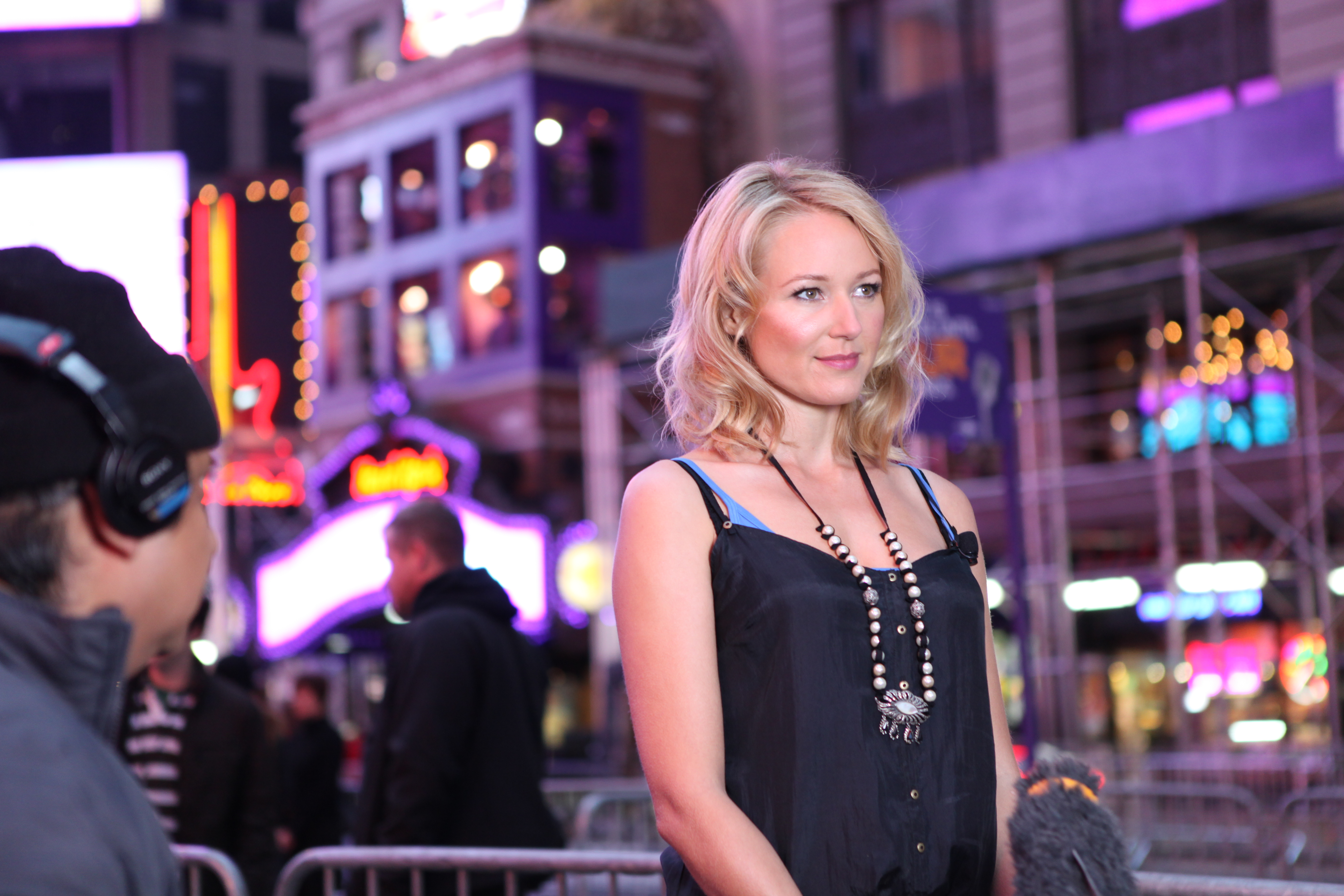 Jewel at Yahoo Yodel